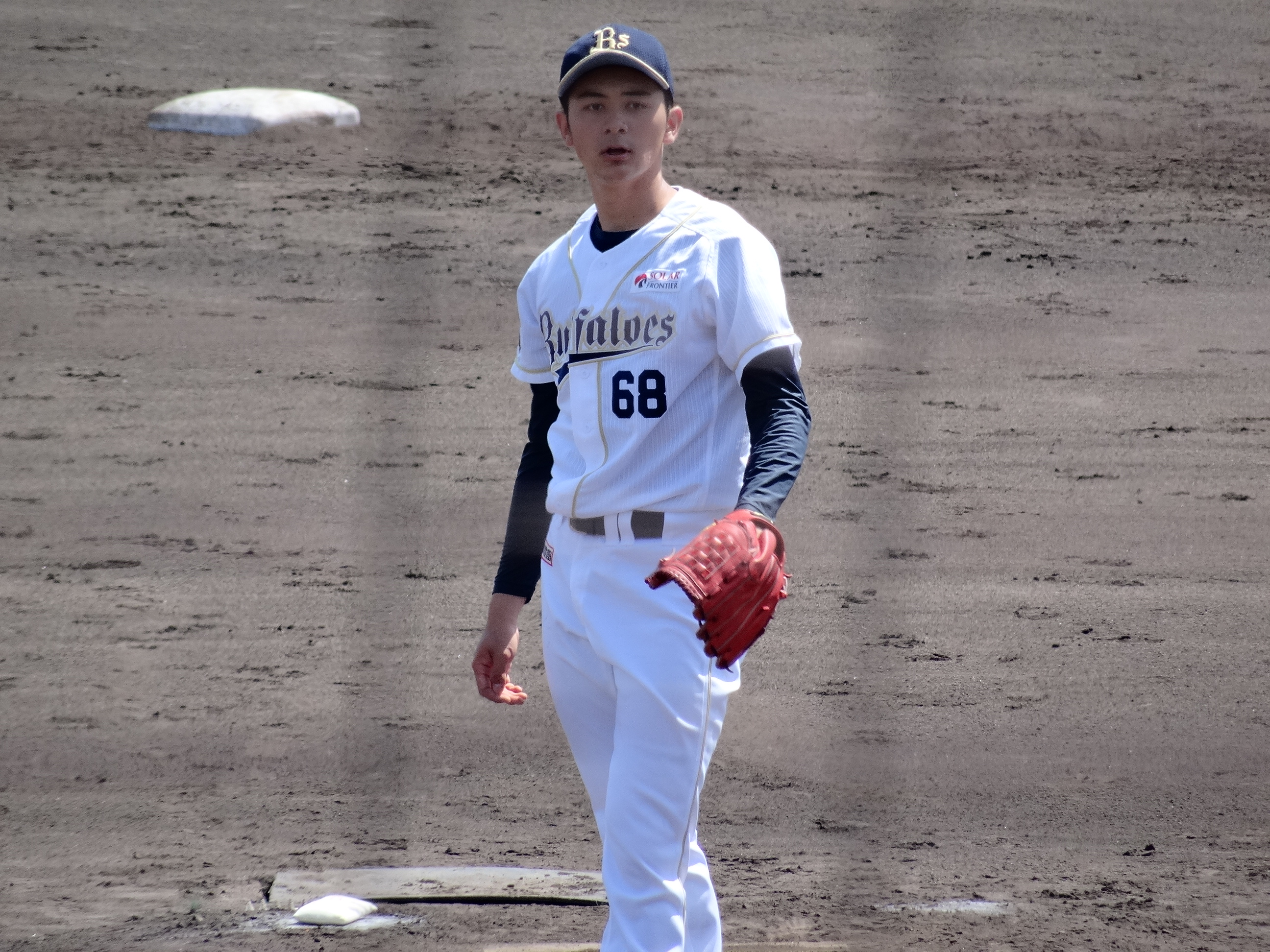 Yu Suzuki, pitcher of the Orix Buffaloes, at Kobe Sports Park Sub Baseball Ground.